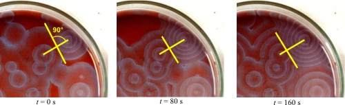 Belousov-Zhabotinsky_reaction self drawn